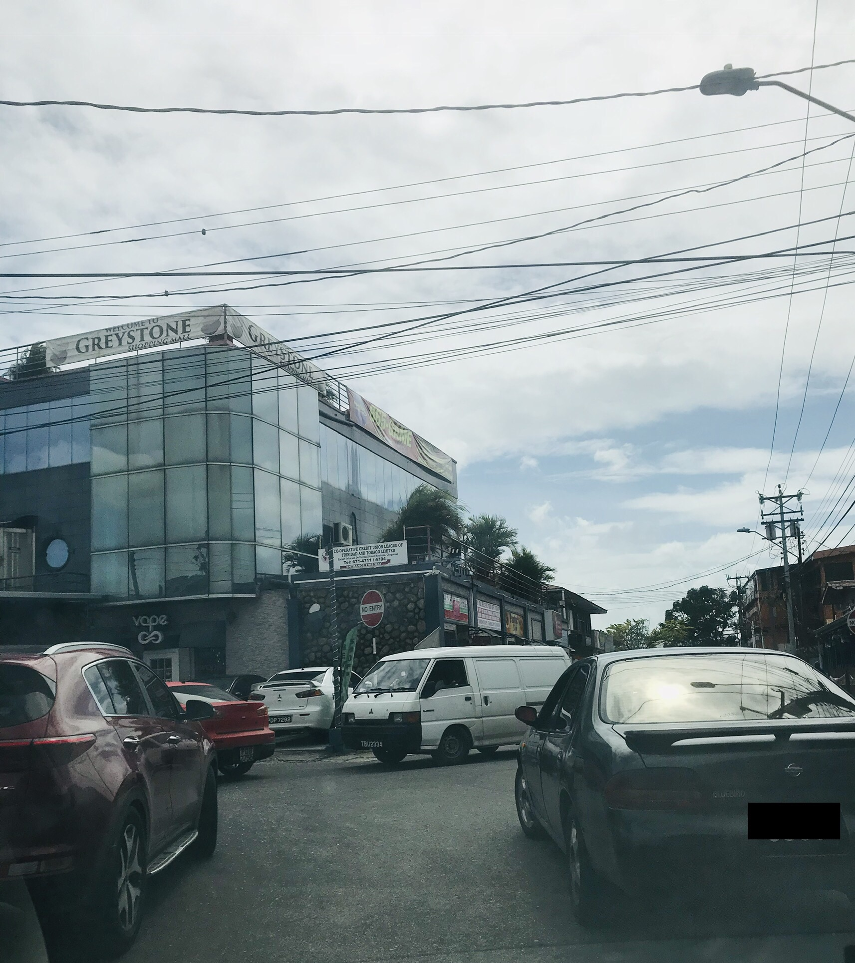 New shopping mall on a busy intersection (De Verteuil St and John St), just before the Chaguanas Main Road.